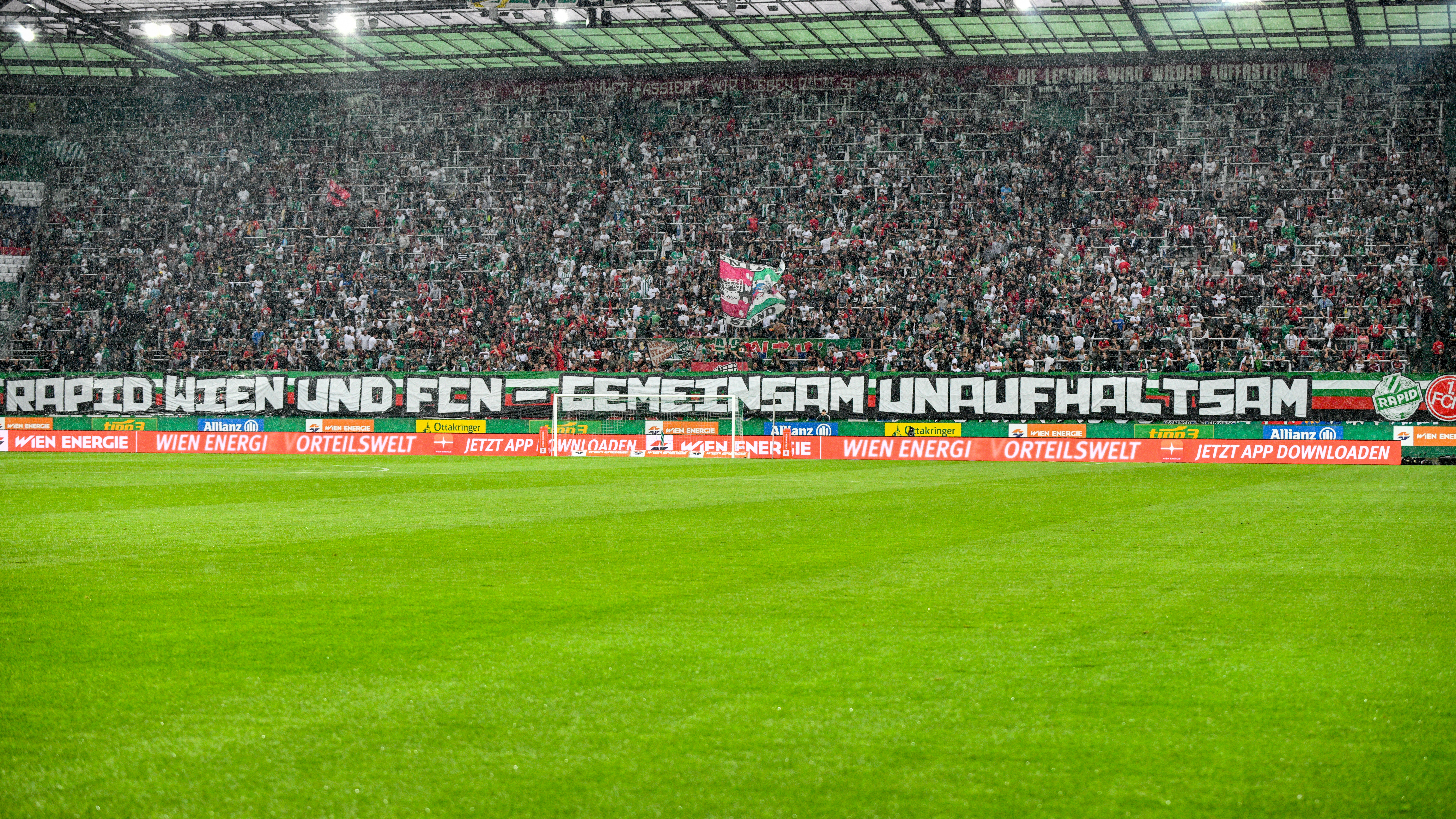 Austrian soccer league season 2019/20, friendly pre-season match SK Rapid Wien vs. 1. FC Nürnberg. Picture shows: banner of friednship between Rapid Wien and FC Nürnberg